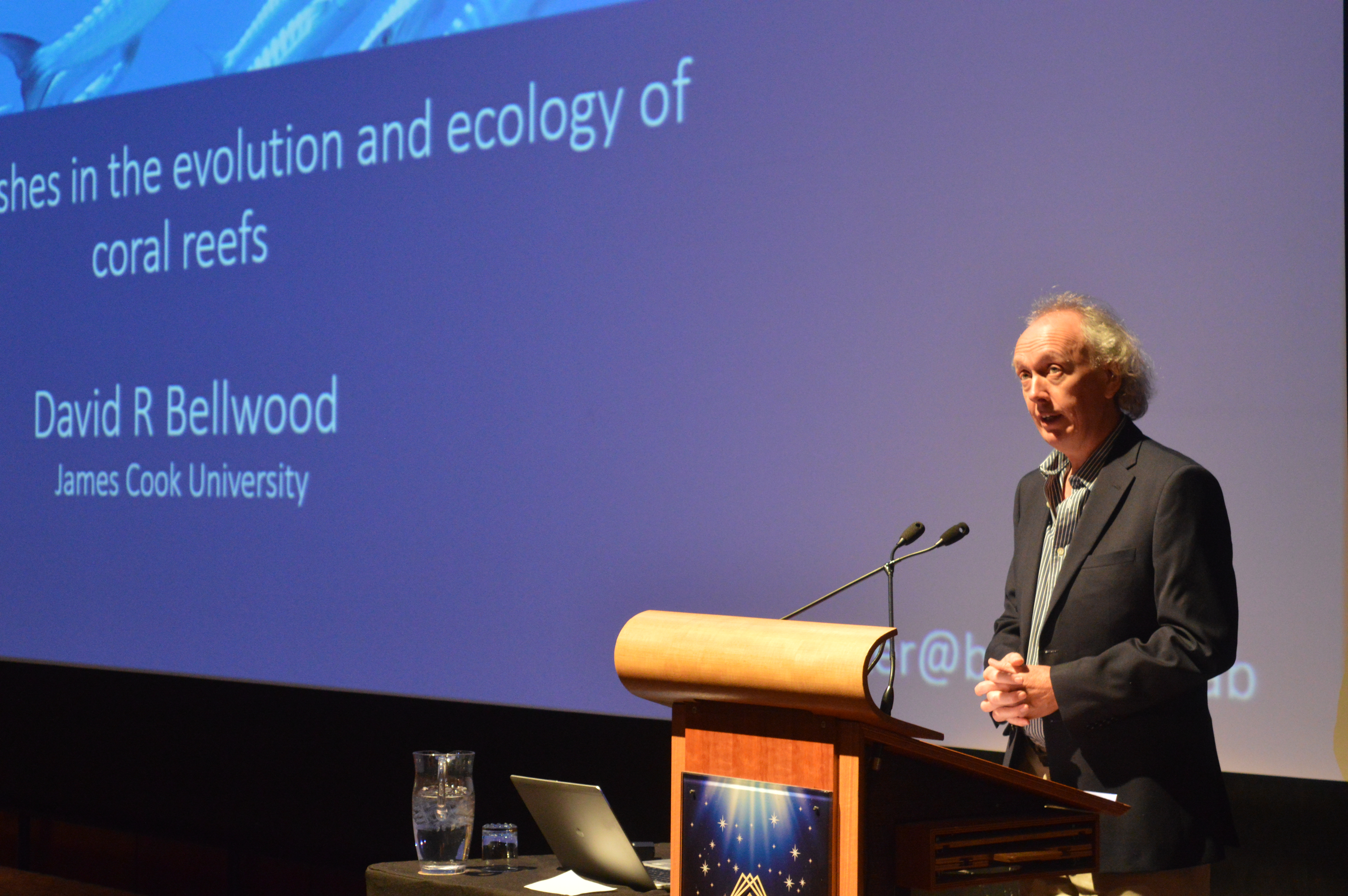 Fish biologist David Bellwood, winner of the 2015 K. Radway Allen Award, presents his research at the 2016 joint conference of the Australian Society for Fish Biology and Oceania Chrondrichthyan Society in Hobart, Tasmania on September 6, 2016.